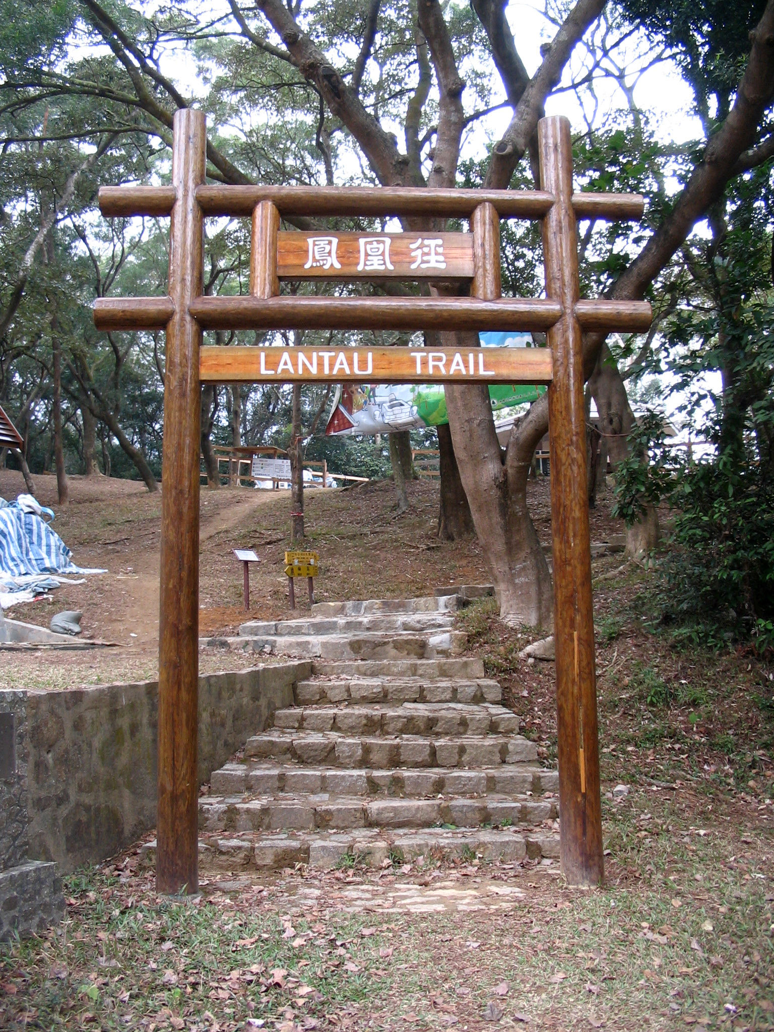 Photo of Lantau Trail